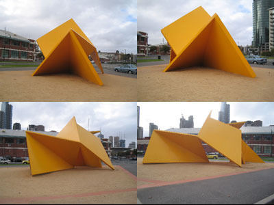 photographs of Vault taken June 2005